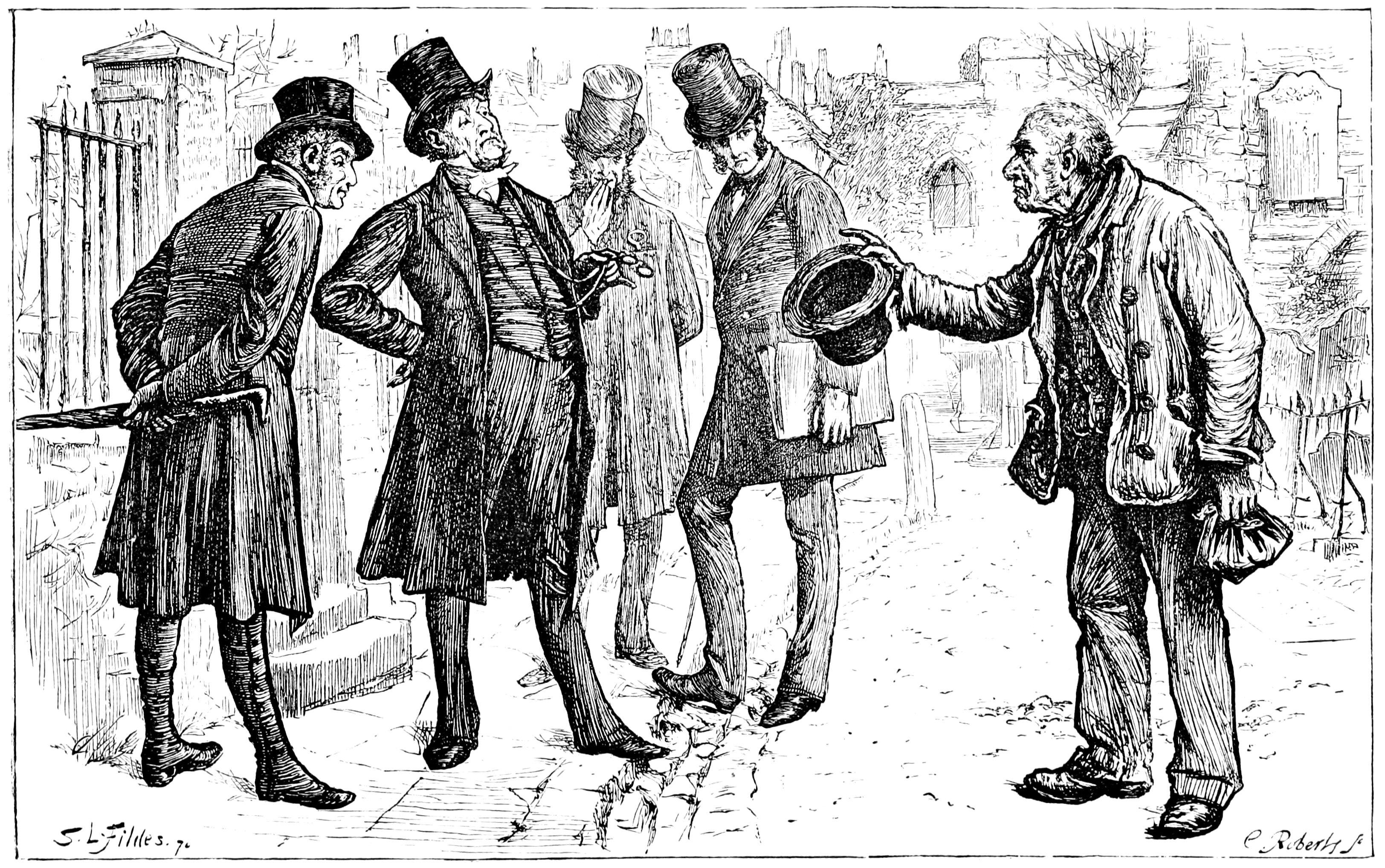 Illustration from the book, The Mystery of Edwin Drood, written by Charles Dickens, illustrated by Luke Fides